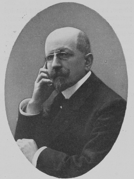 Josef Šimek (1855-1943)